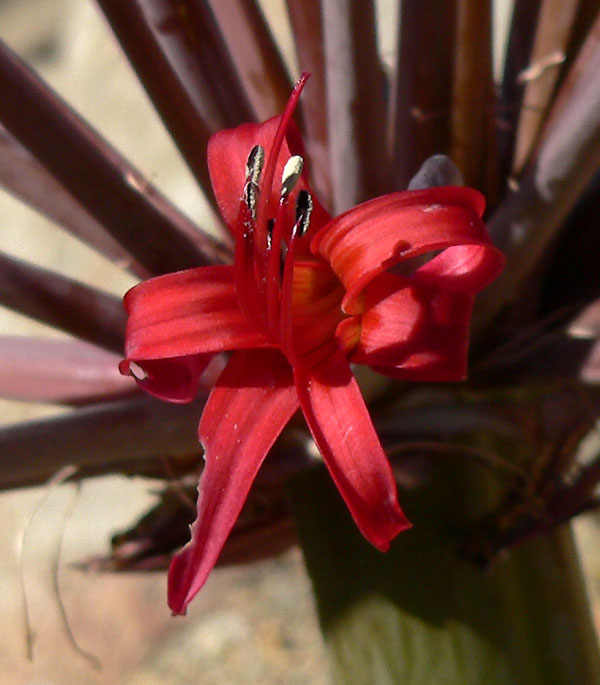 Brunsvigia josephinae at the University of California Botanical Garden, Berkeley, California